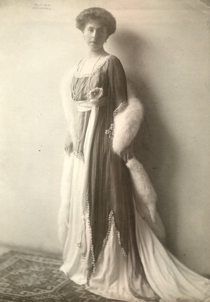 Sandra, Princess of Hohenlohe-Langenburg